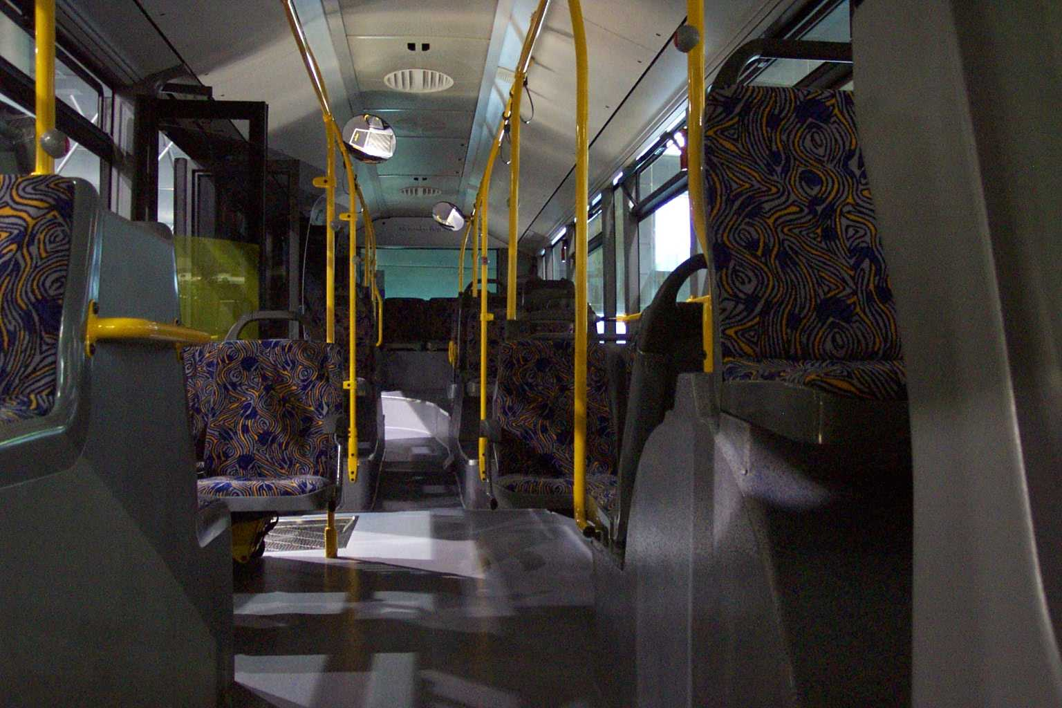 Bus type Mercedes Citaro, interieur, at Autotec trade fair in Brno - Autobus typu Mercedes Citaro, interiér, na veletrhu Autotec v Brně